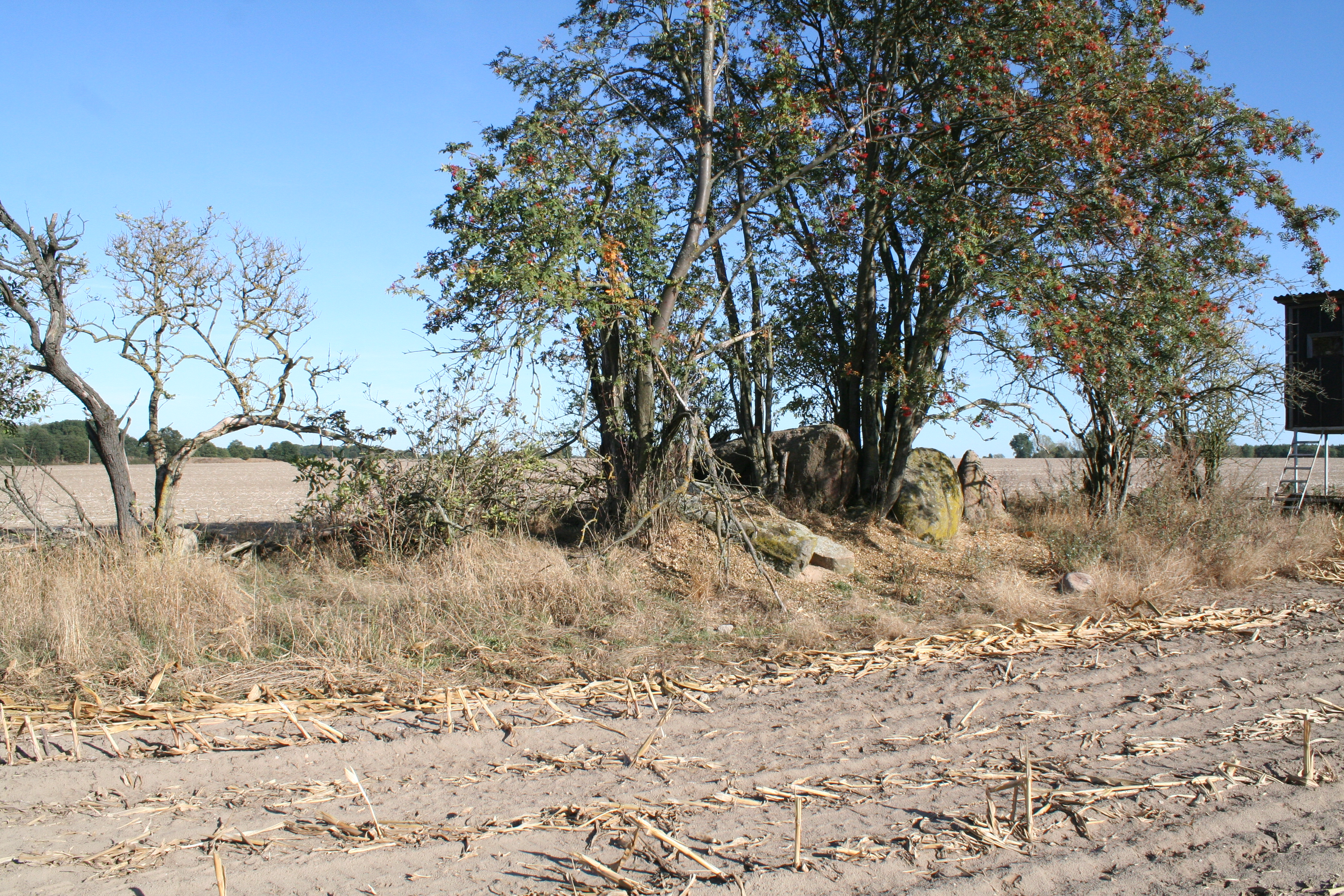 Megalithic tomb Schadewohl 3